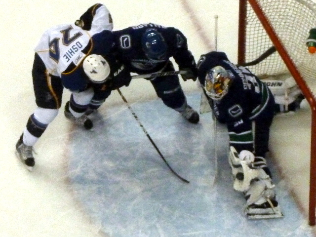 Vancouver Canucks goaltender Cory Schneider makes a glove save against St. Louis Blues forward T. J. Oshie (left) while defenceman Keith Ballard (center) defends.